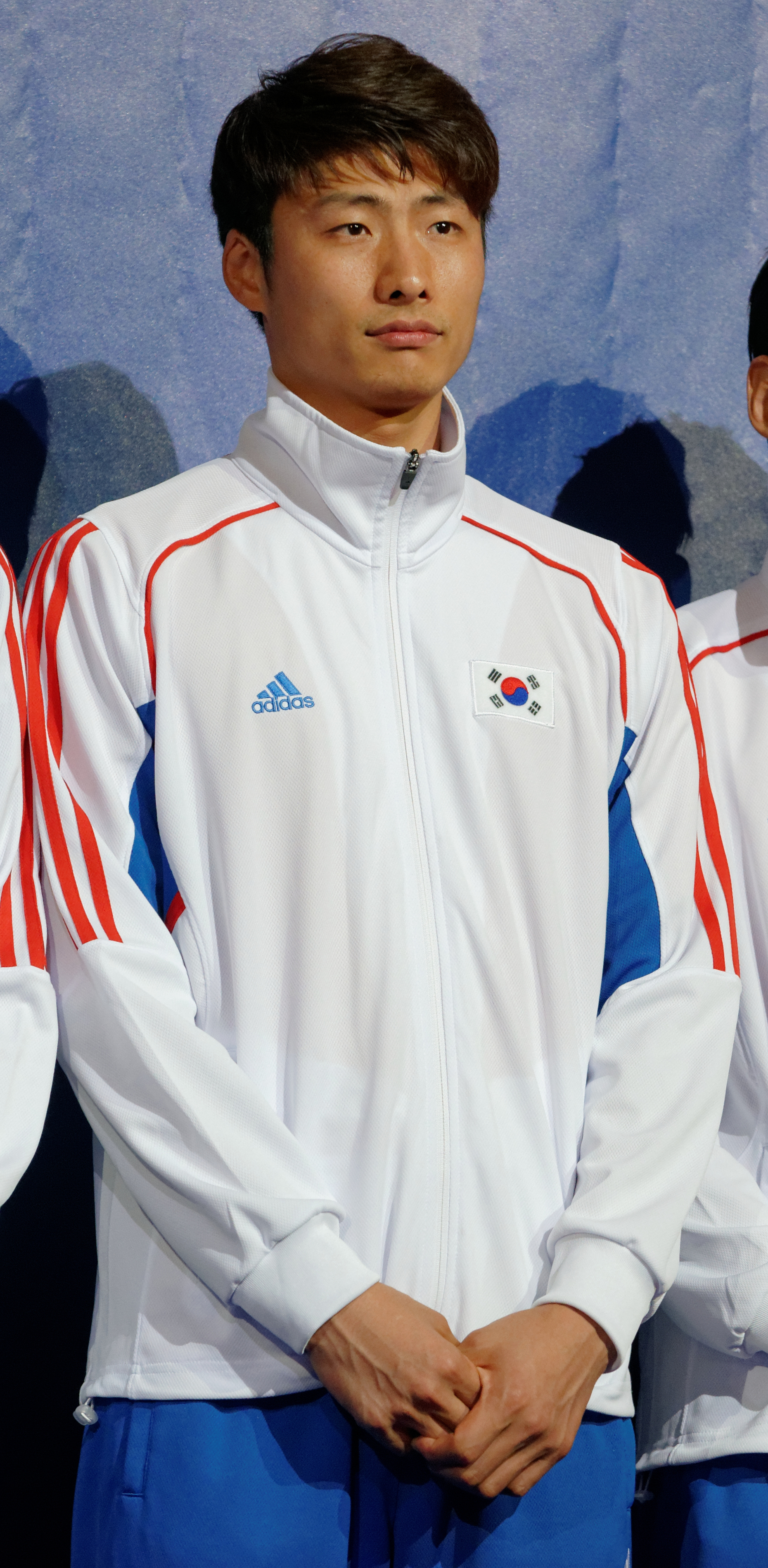 Korea men's sabre team (Gu Bon-gil, Kim Jung-hwan, Oh Eun-seok, Won Jun-ho) stand on the podium of the 2013 World Fencing Championships 2013 at Syma Hall in Budapest, 10 August 2013.